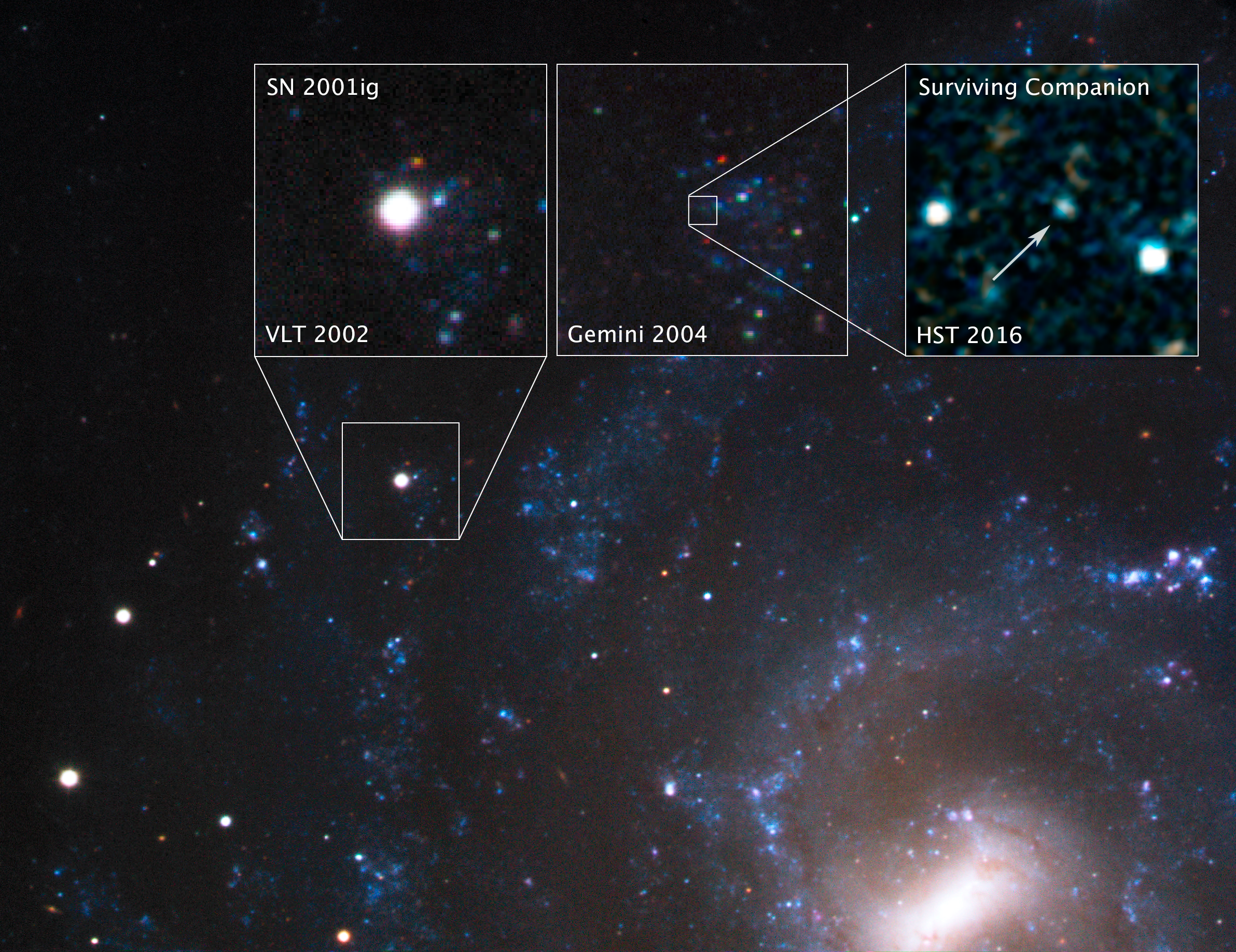 Seventeen years ago, astronomers witnessed supernova 2001ig go off 40 million light-years away in the galaxy NGC 7424, in the southern constellation Grus, the Crane. Shortly after, scientists photographed the supernova with the European Southern Observatory’s Very Large Telescope (VLT) in 2002. Two years later, they followed up with the Gemini South Observatory, which hinted at the presence of a surviving binary companion. As the supernova’s glow faded, scientists focused Hubble on that location in 2016. They pinpointed and photographed the surviving companion, which was possible only due to Hubble’s exquisite resolution and ultraviolet sensitivity.